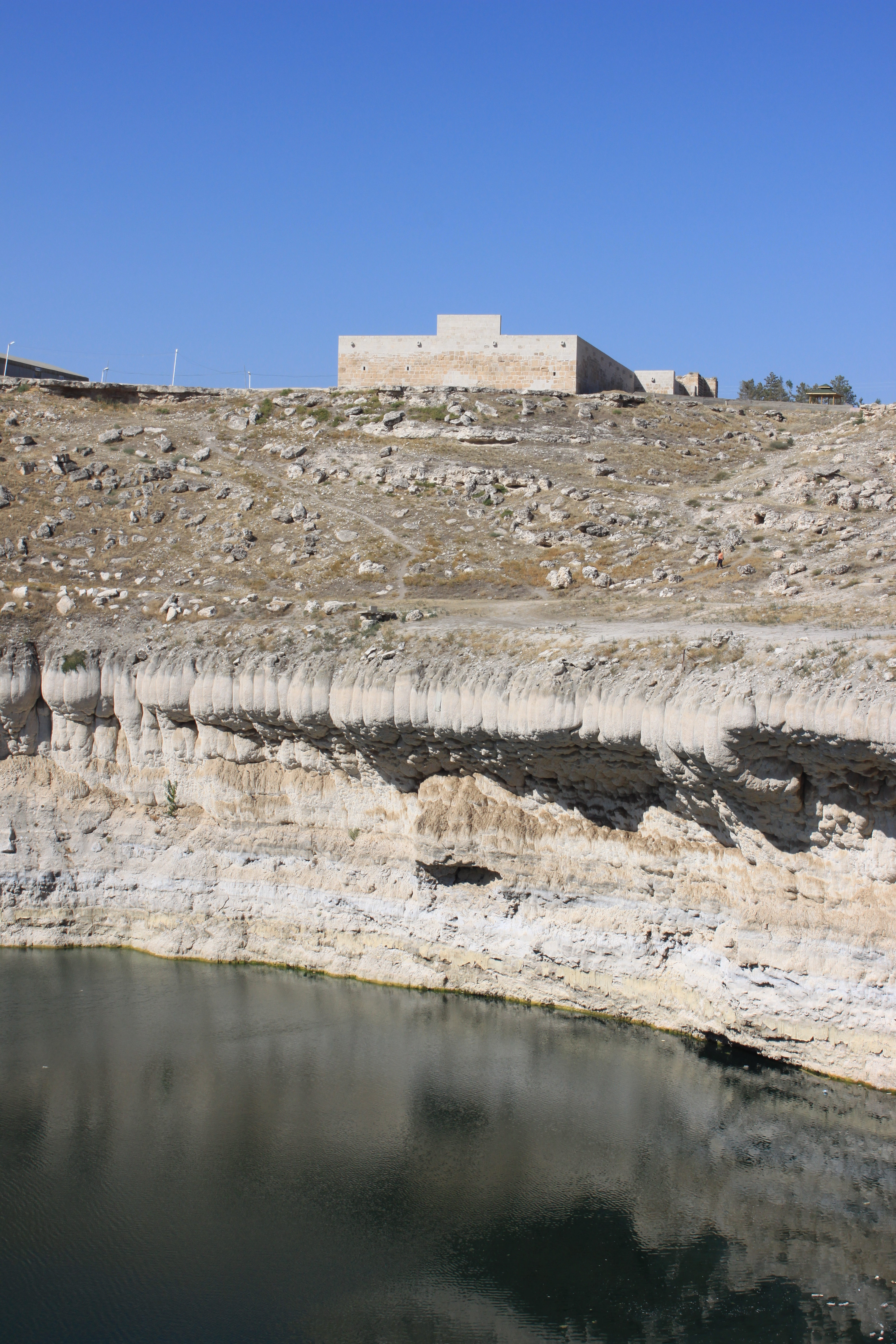 Obruk Hanı, with Doline (Obruk), view to East Southeast.